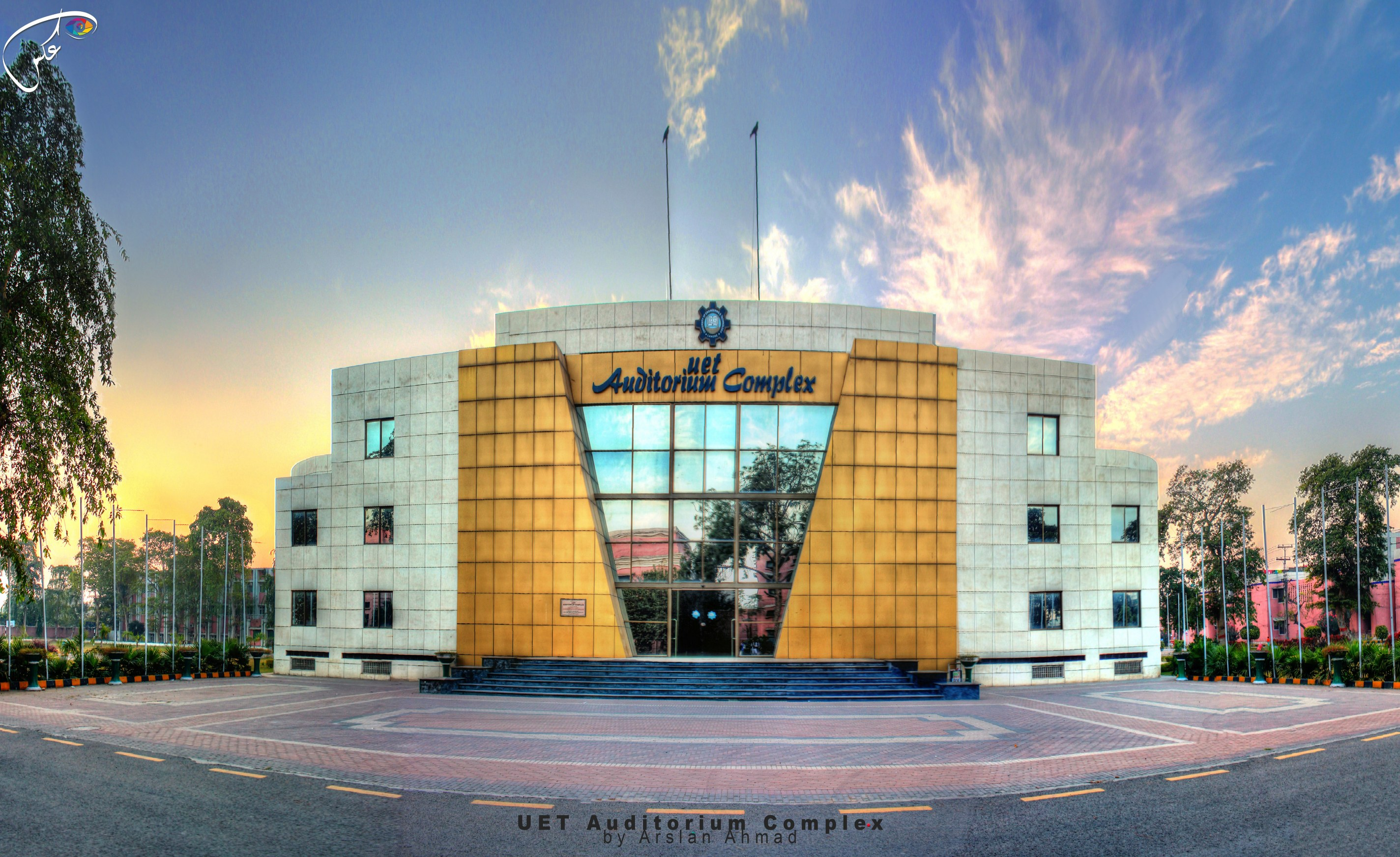 Auditorium Complex, UET Lahore, Main Campus